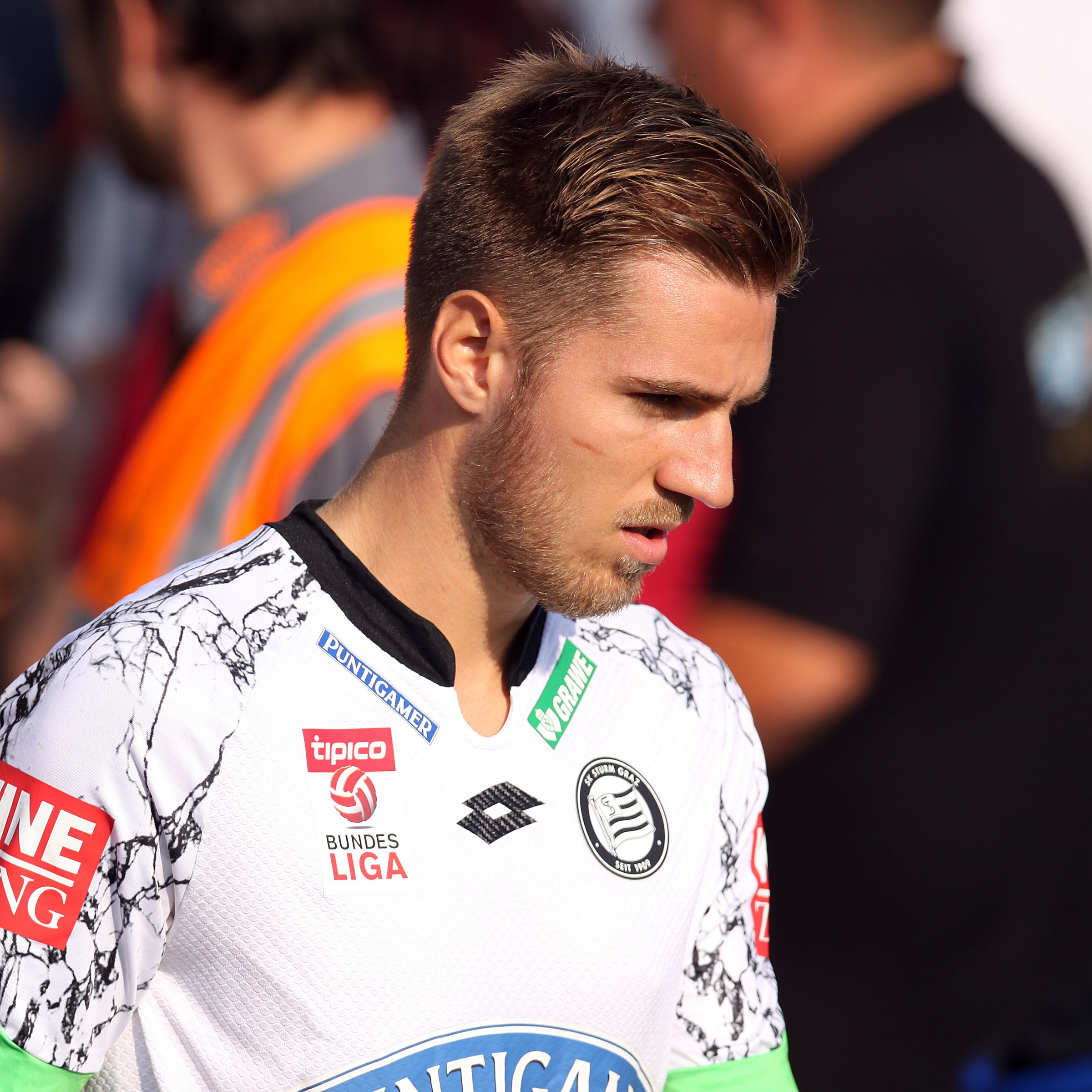 Match of the Austrian Football Bundesliga – SV Mattersburg (green shirts) vs. SK Sturm Graz (white shirts) on 2015-09-13 in Pappelstadion, Mattersburg – The photo shows Thorsten Schick